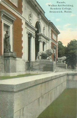 Walker Art Museum Building, Bowdoin College, Brunswick, ME; from a c. 1912 postcard.